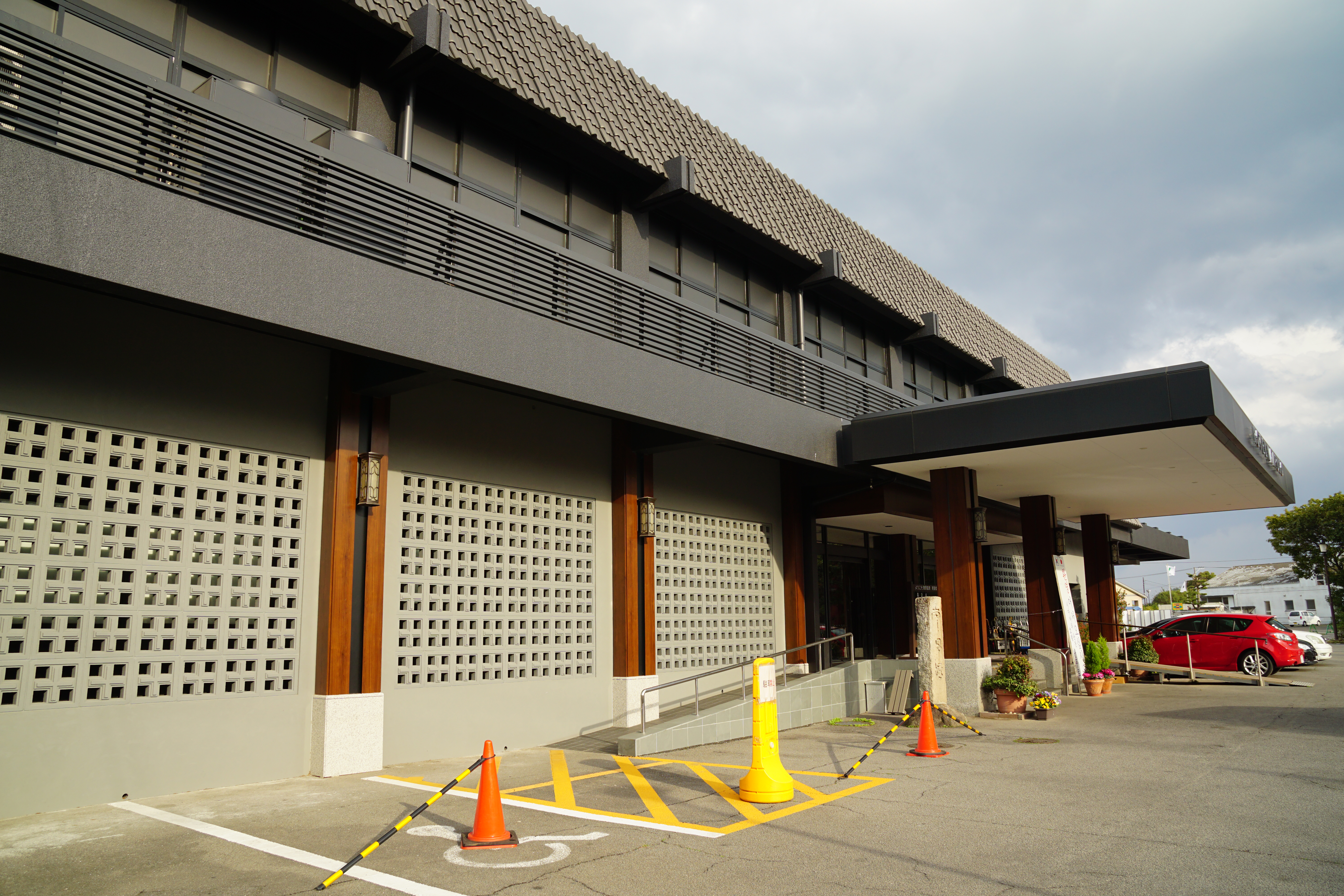 Shimabara Onsen Hotel Nampuro in Shimabara, Nagasaki prefecture, Japan.